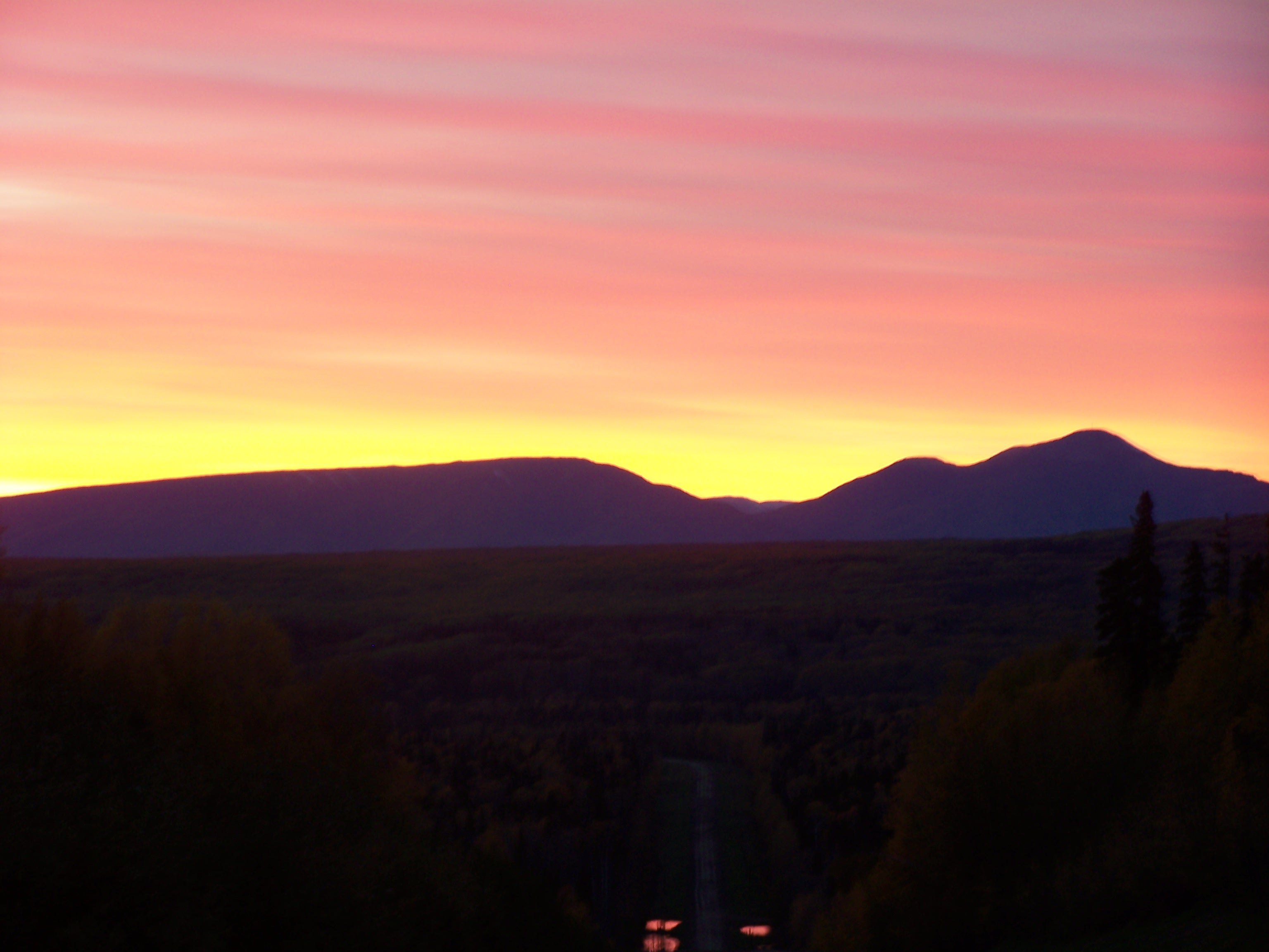 Taken in the Hamlet of Fort Liard at sunset.